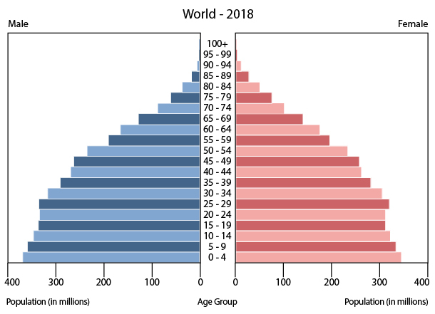 The population pyramid of the world illustrates the age and sex structure of population and may provide insights about political and social stability, as well as economic development. The population is distributed along the horizontal axis, with males shown on the left and females on the right. The male and female populations are broken down into 5-year age groups represented as horizontal bars along the vertical axis, with the youngest age groups at the bottom and the oldest at the top. The shape of the population pyramid gradually evolves over time based on fertility and mortality.